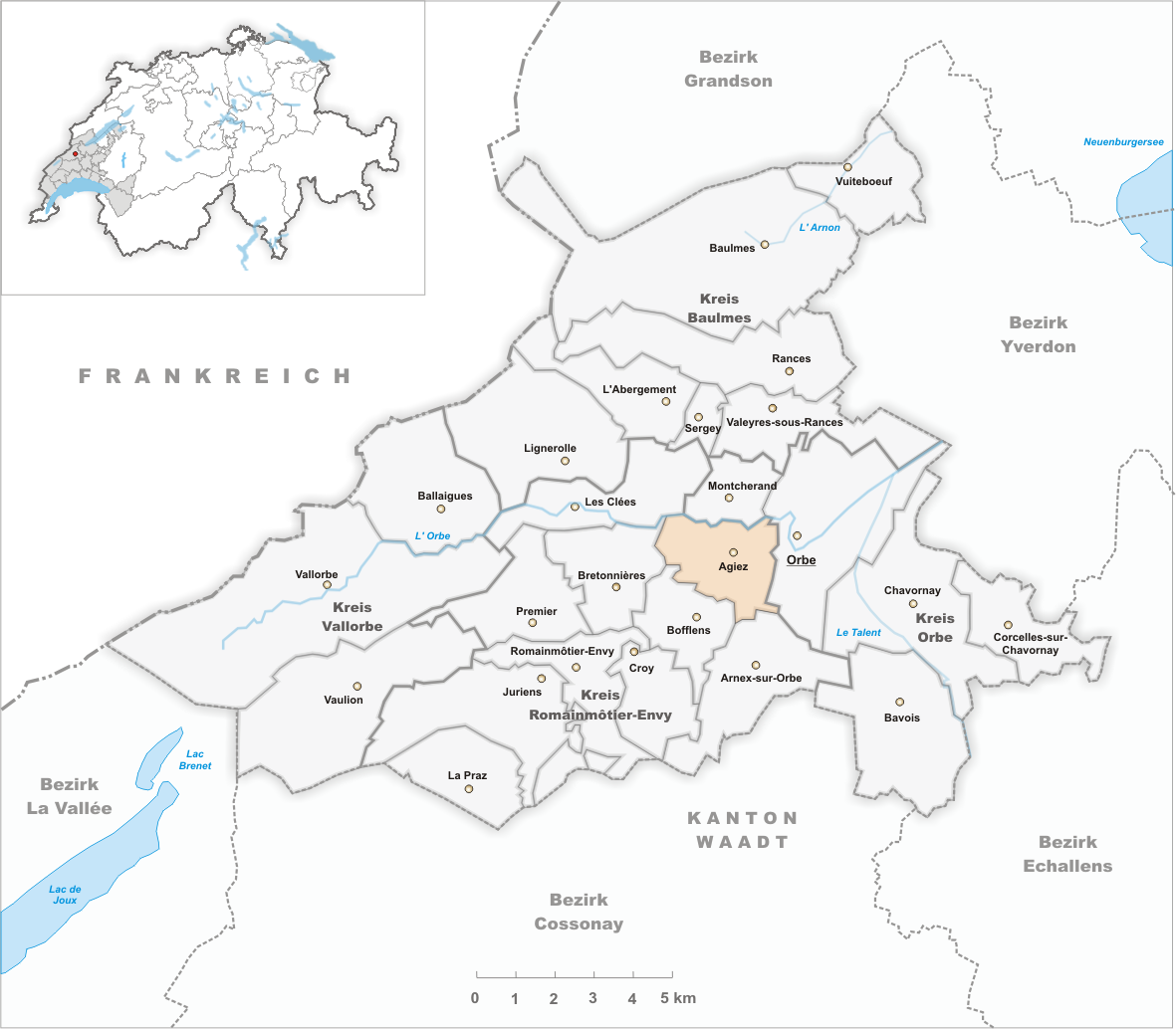 Municipality Agiez